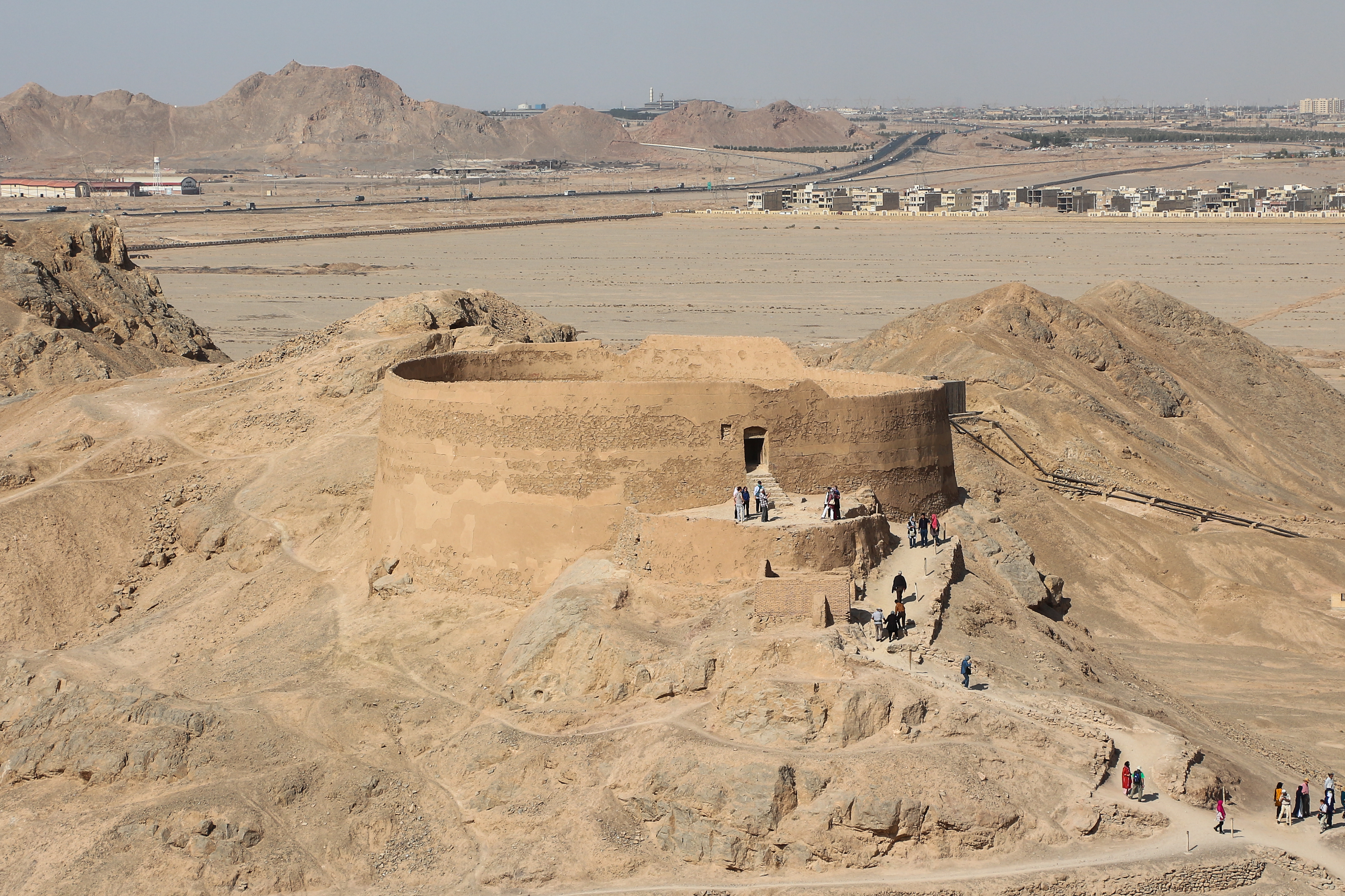 The western Tower of Silence, Yazd, Iran